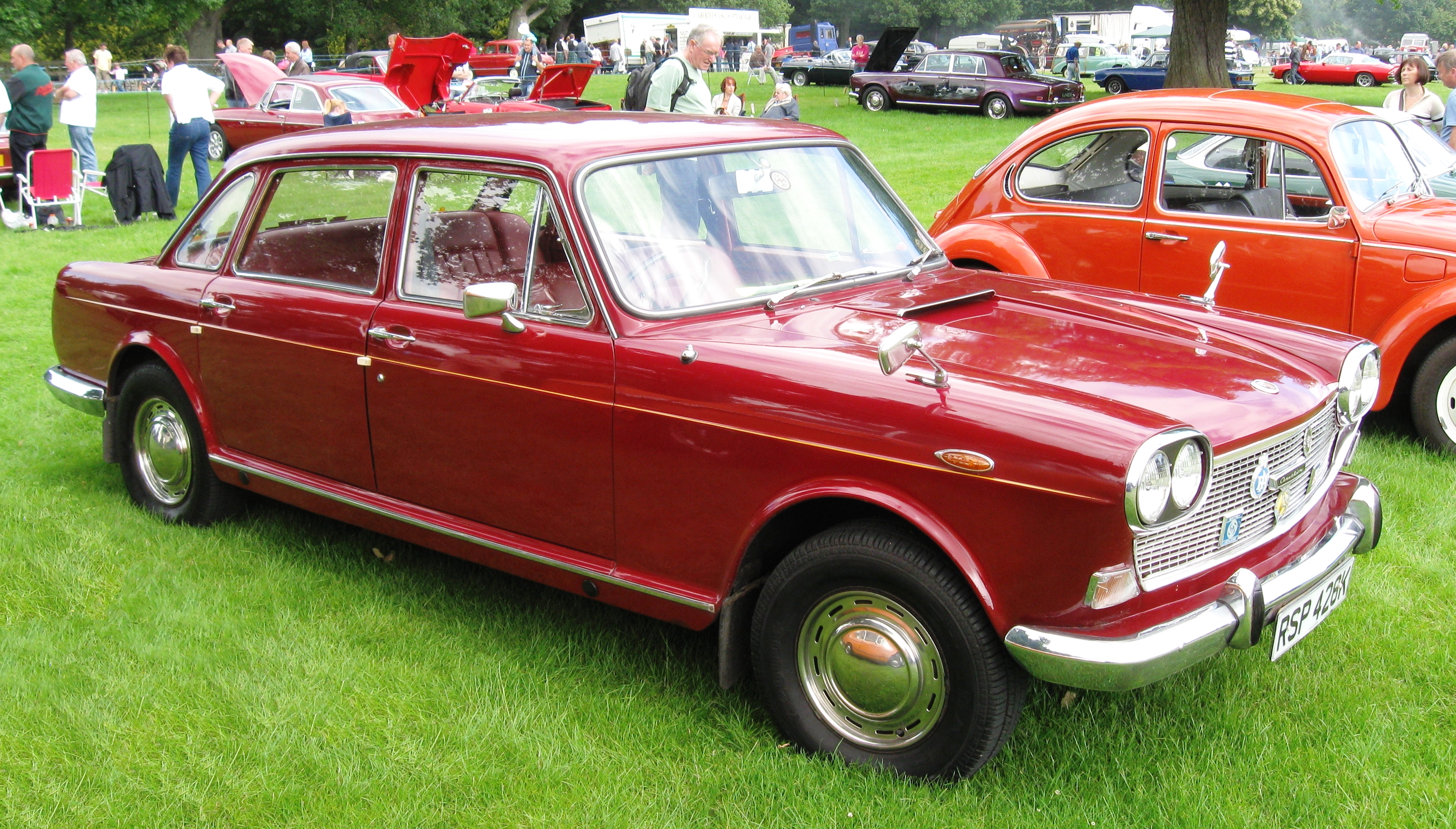 Austin 3-Litre(DVLA) first registered 20 August 1971, 2912ccat SVVC Extravaganza, Glamis Castle, 2009.